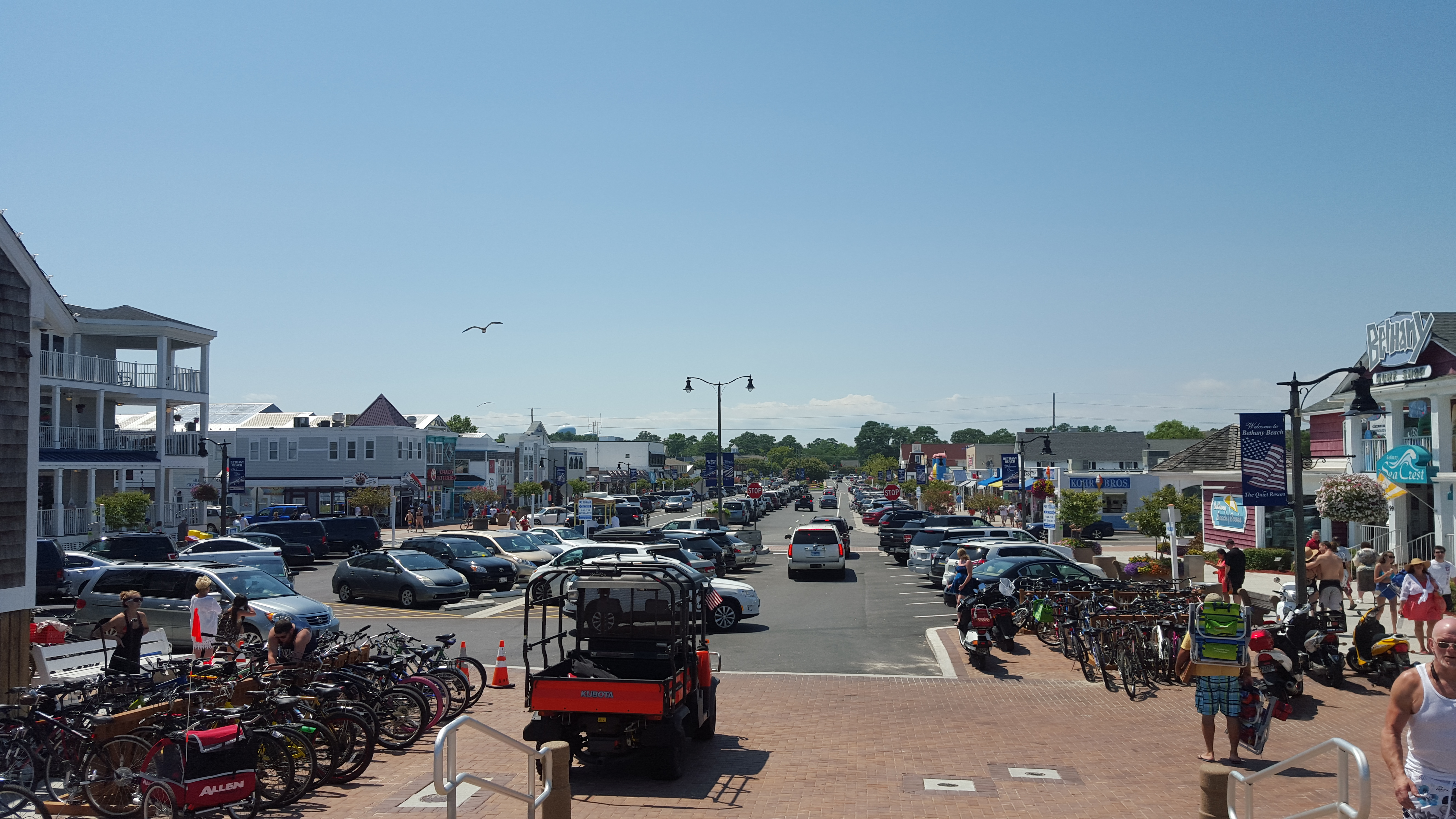 Downtown Bethany Beach, Delaware, where most commercial shopping takes place.